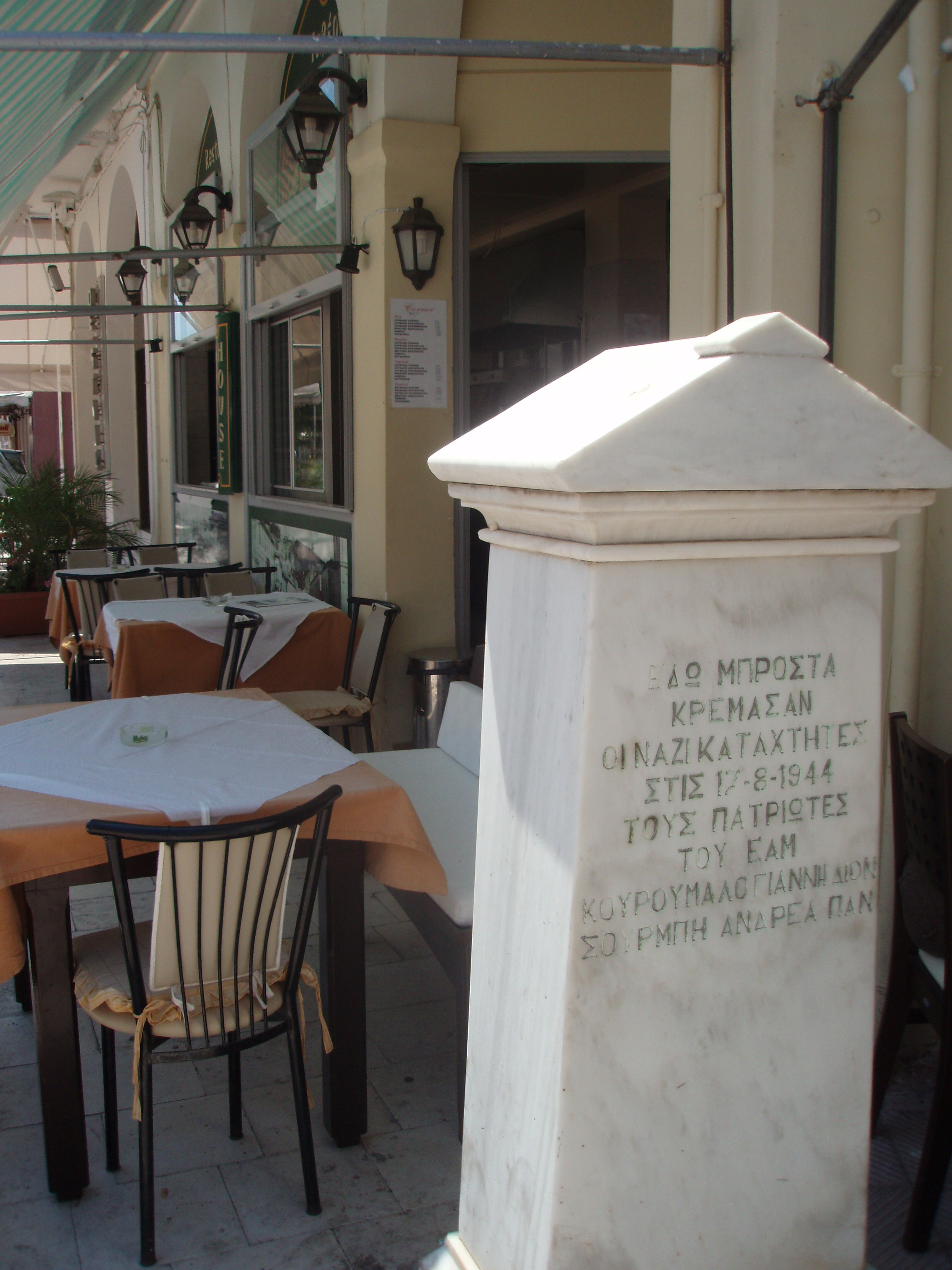 Memorial for Greek EAM rebels executed during World War II in Zakynthos City, Greece. The Memorial is located on Platia Agiou Markou (Agios Markos Square) in Zakynthos City immediately next to its exit towards Platia Dionysiou Solomou (Dionysios Solomos Square). It is usually surrounded by tables and chairs of an adjacent tavern.